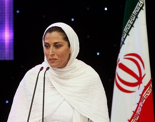 Mahtab Keramati, Prudence and Hope meeting, Grand Hall of the Interior Ministry (13930322172223621)